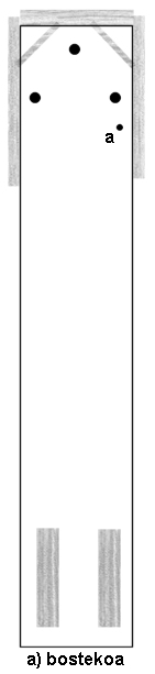 Graphic for the Bermeoko bola jokoa